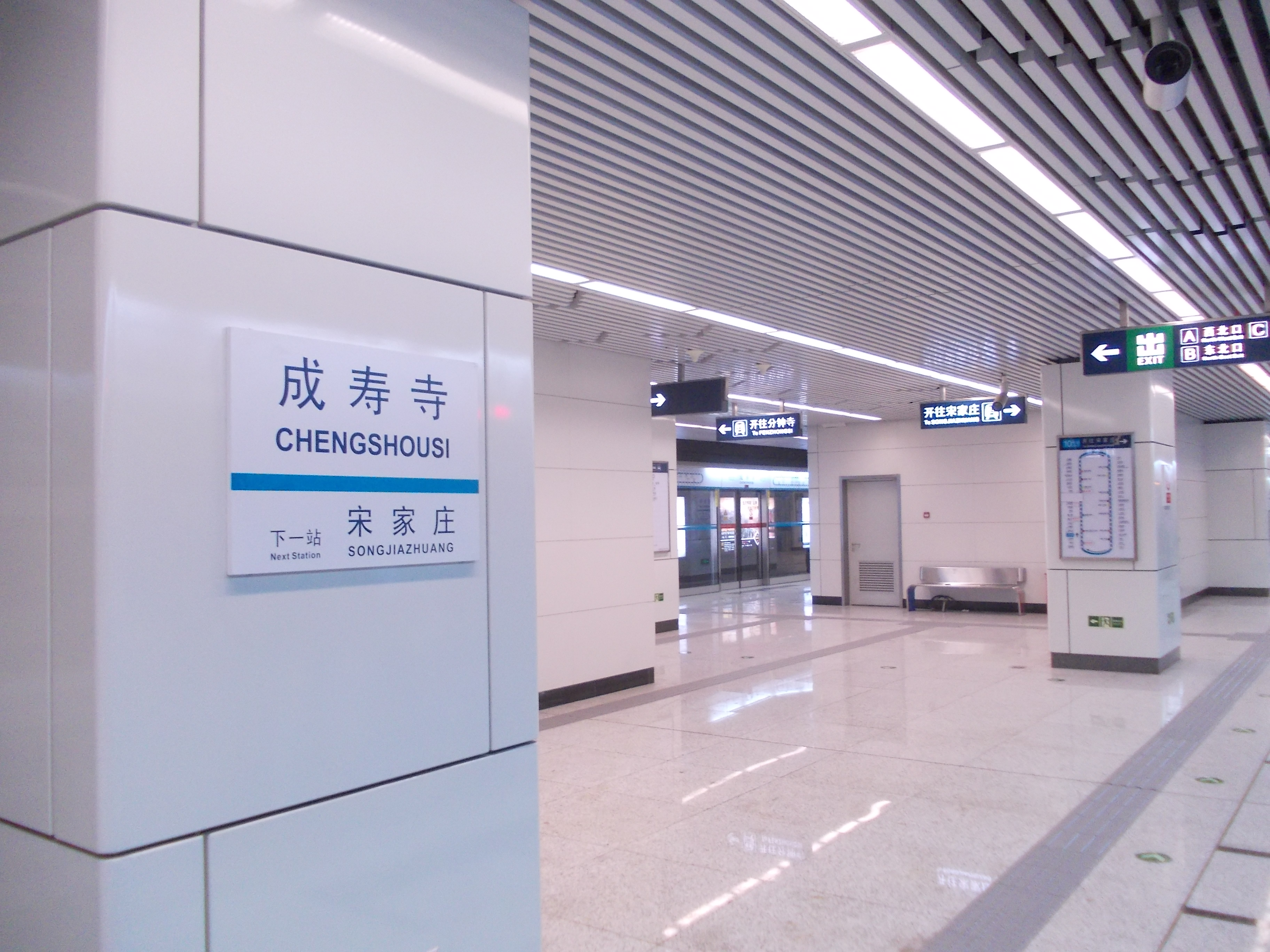 Beijing Subway - Line 10 - Chengshousi Station